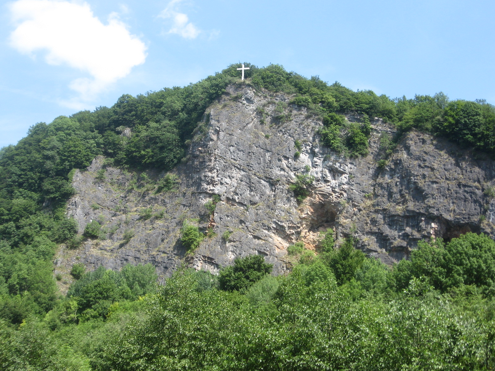 Rock Hohe Ley - Finnentrop-Heggen (Germany)